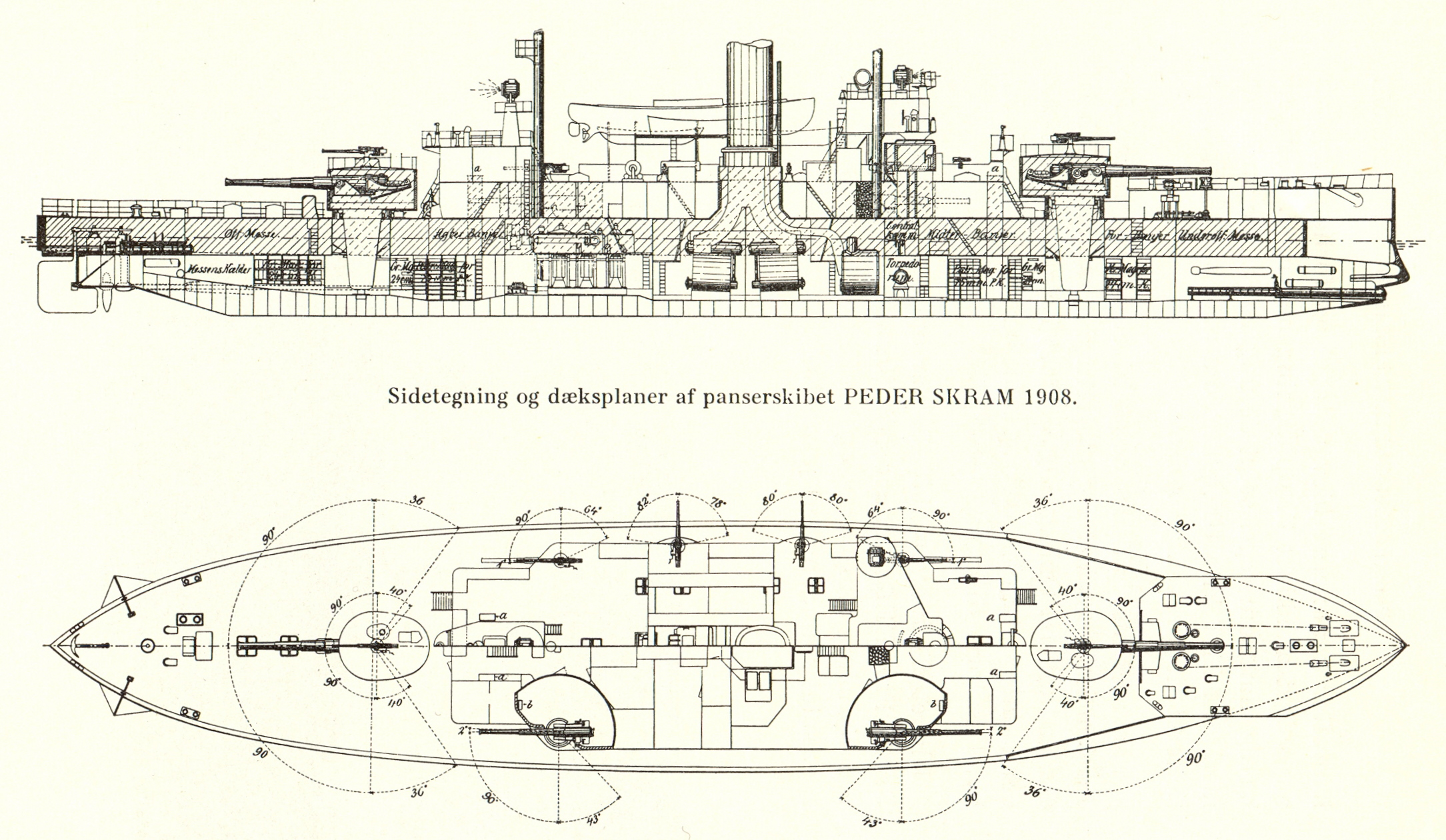 Plan of danish coastal defence ship Peder Skram, launched in 1908